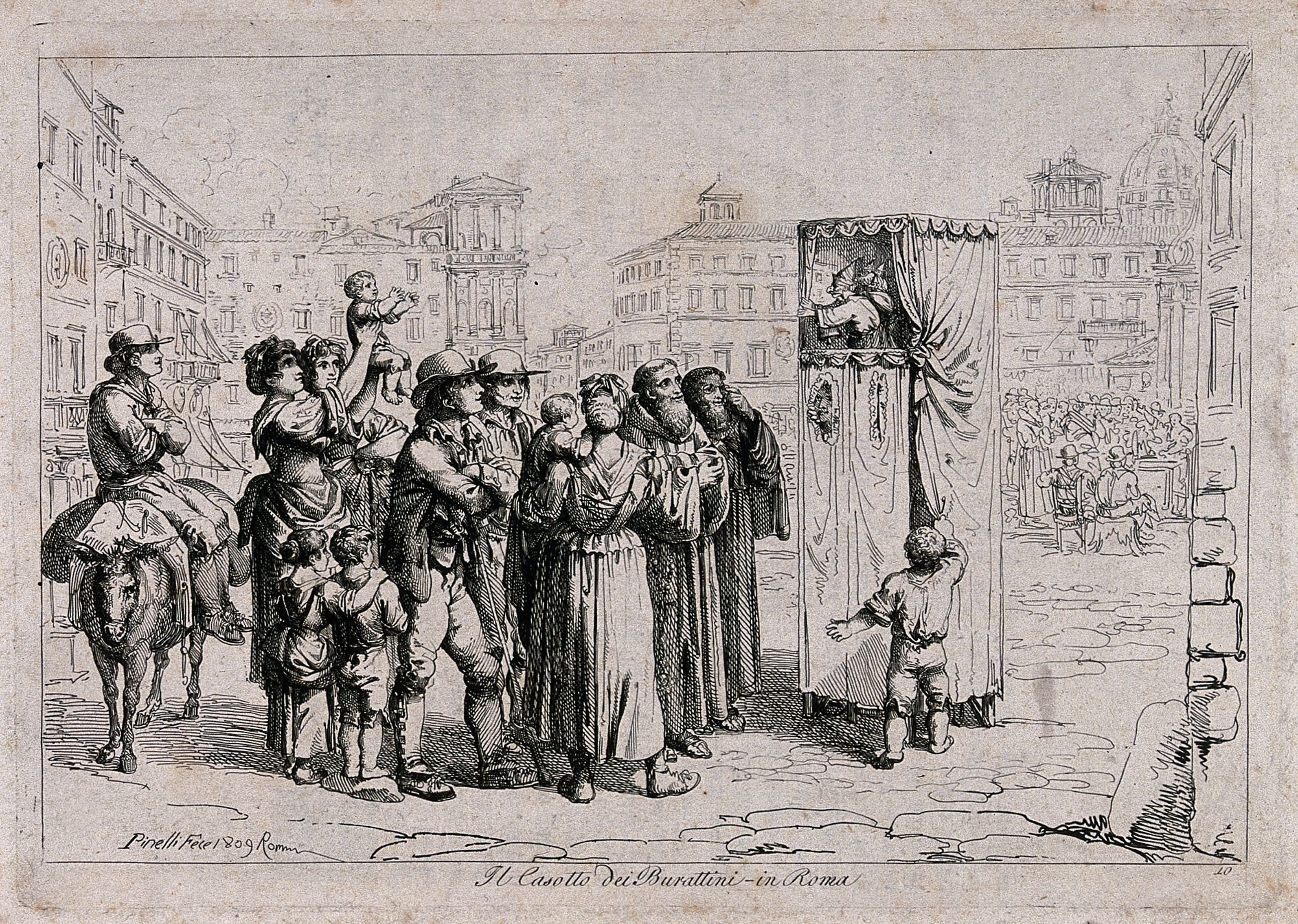 A crowd of people have gathered in the street to watch a Punch and Judy show, a mother has lifted her child up to see and another child pulls back the cloths to peep into the stand. Etching by Pinelli. Iconographic Collections